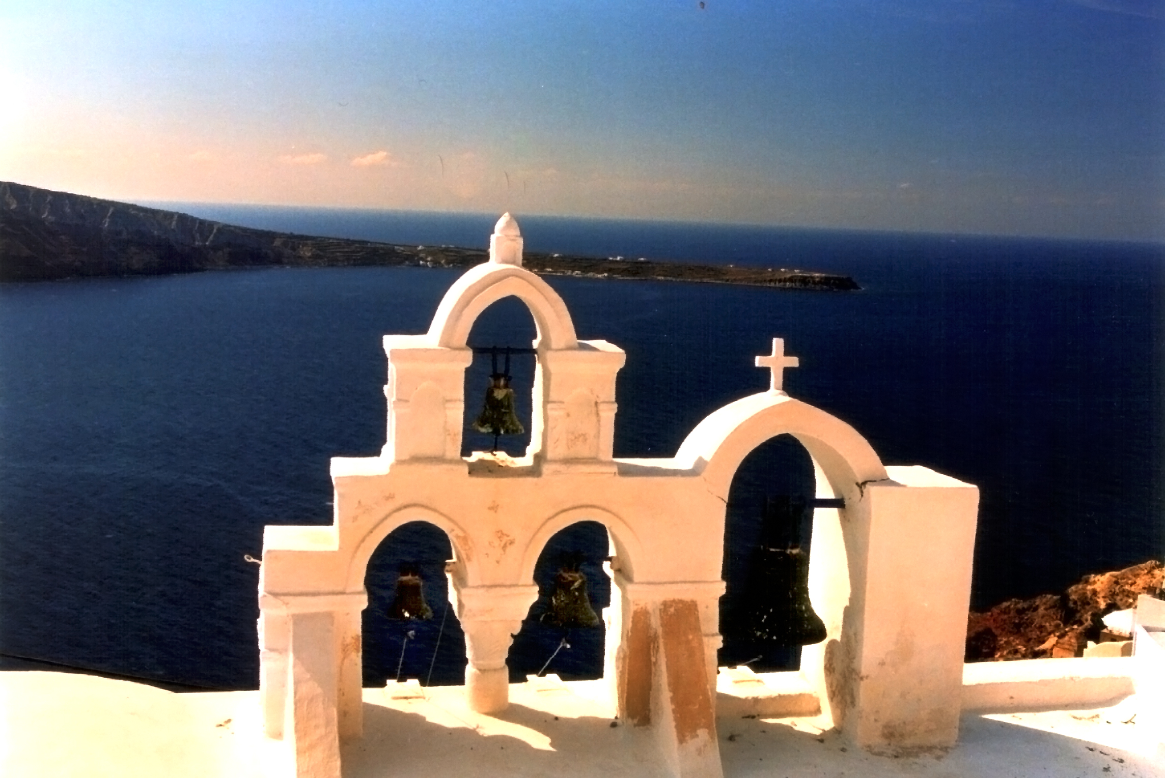 Orthodox chapel in Oia, Greece.